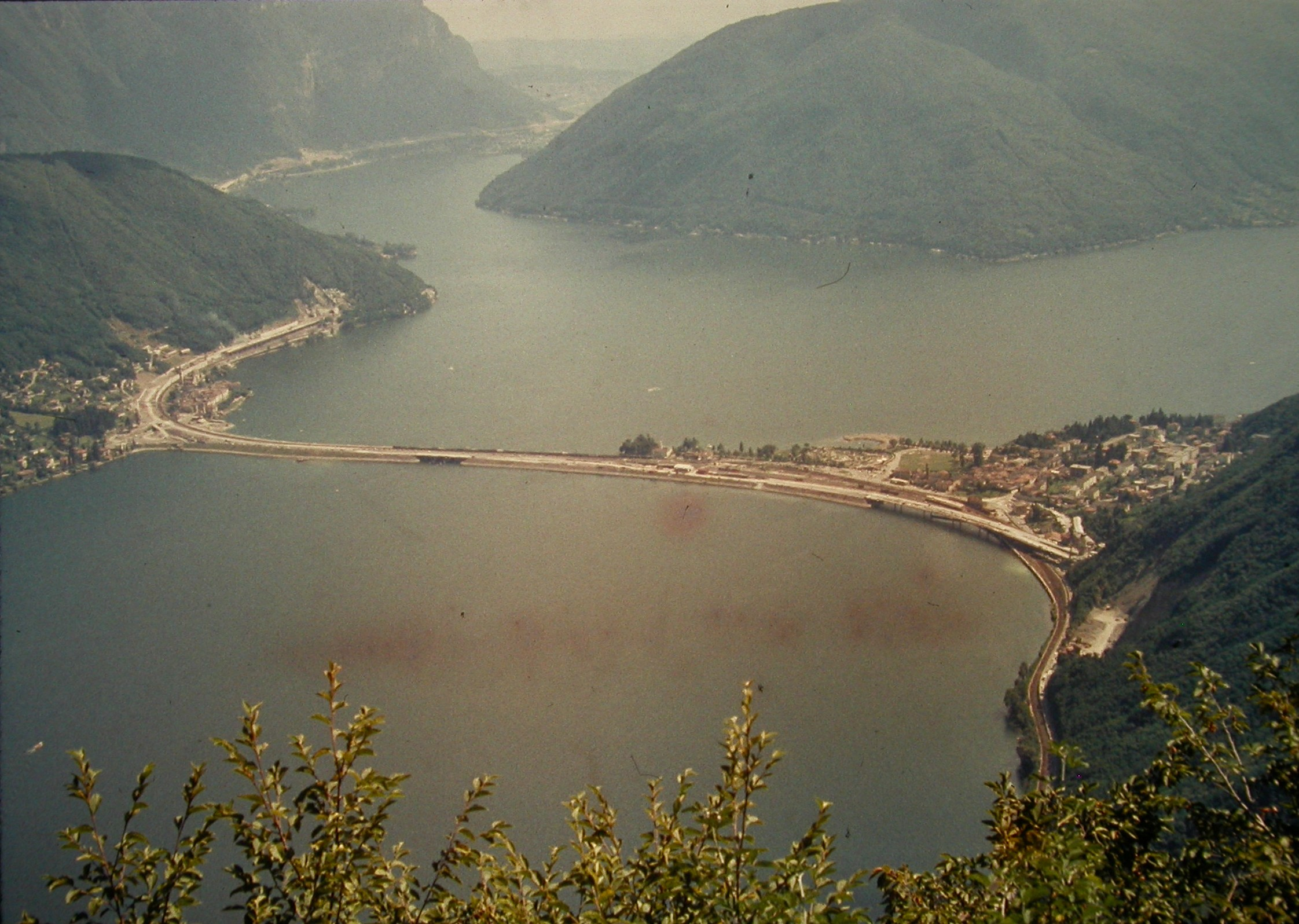 Melide Causeway during construction of the motorway in 1966